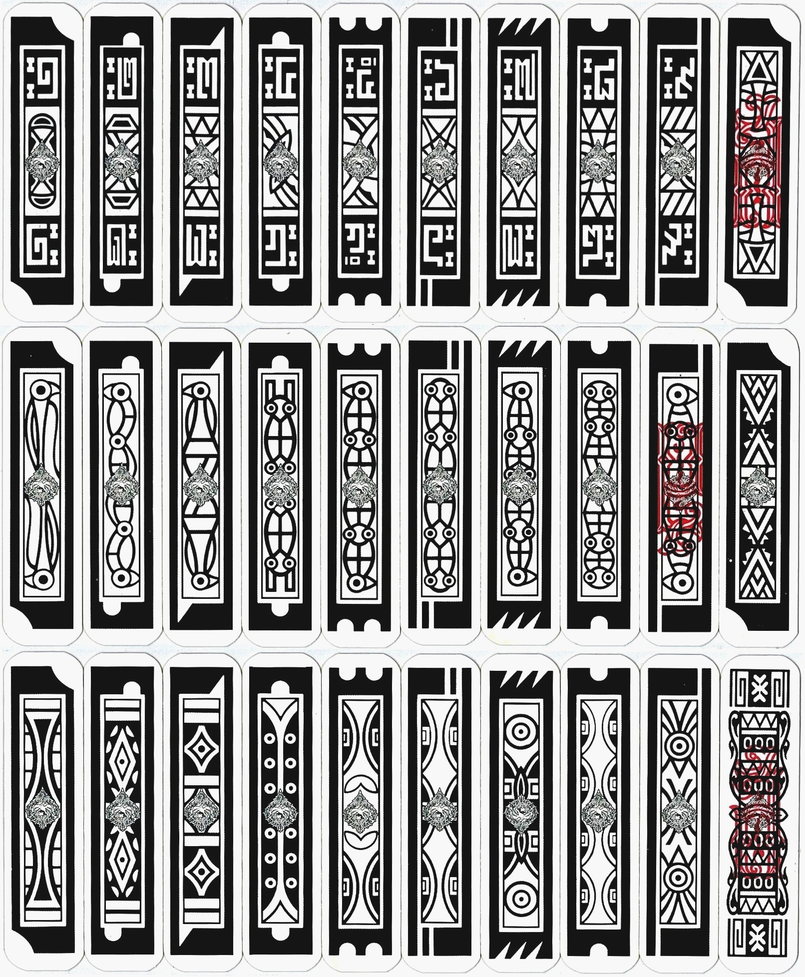 Pai Thai